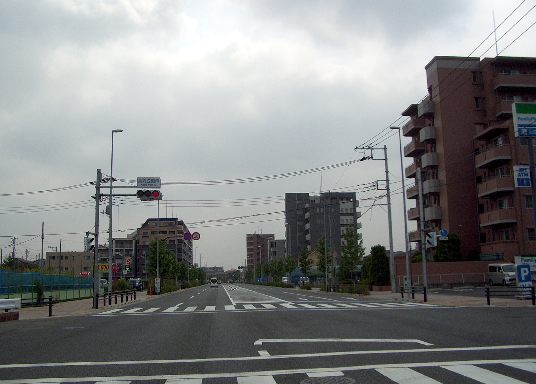 Tsurukawa kaido, Kippo, Inagi, Tokyo